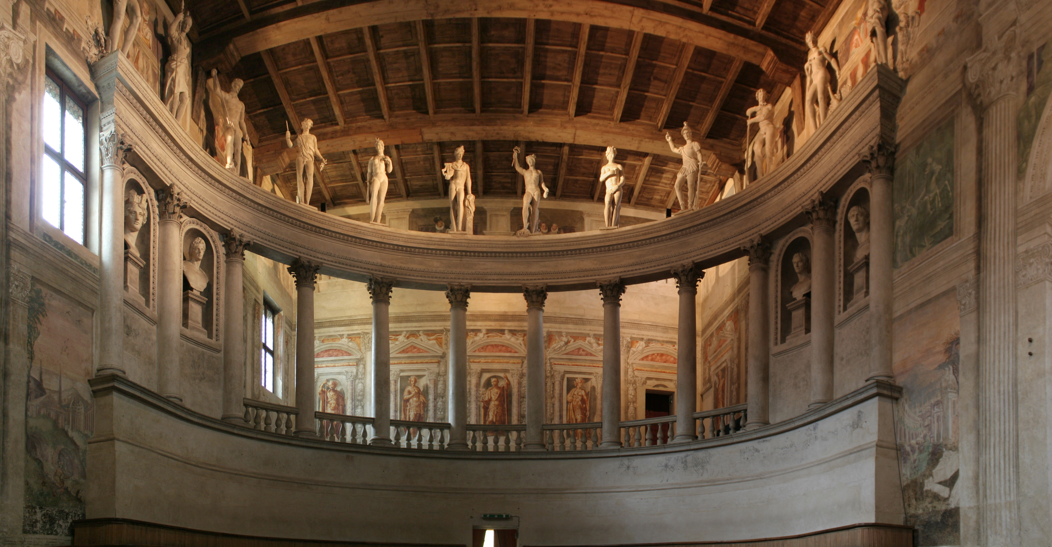 Theater @Sabbioneta